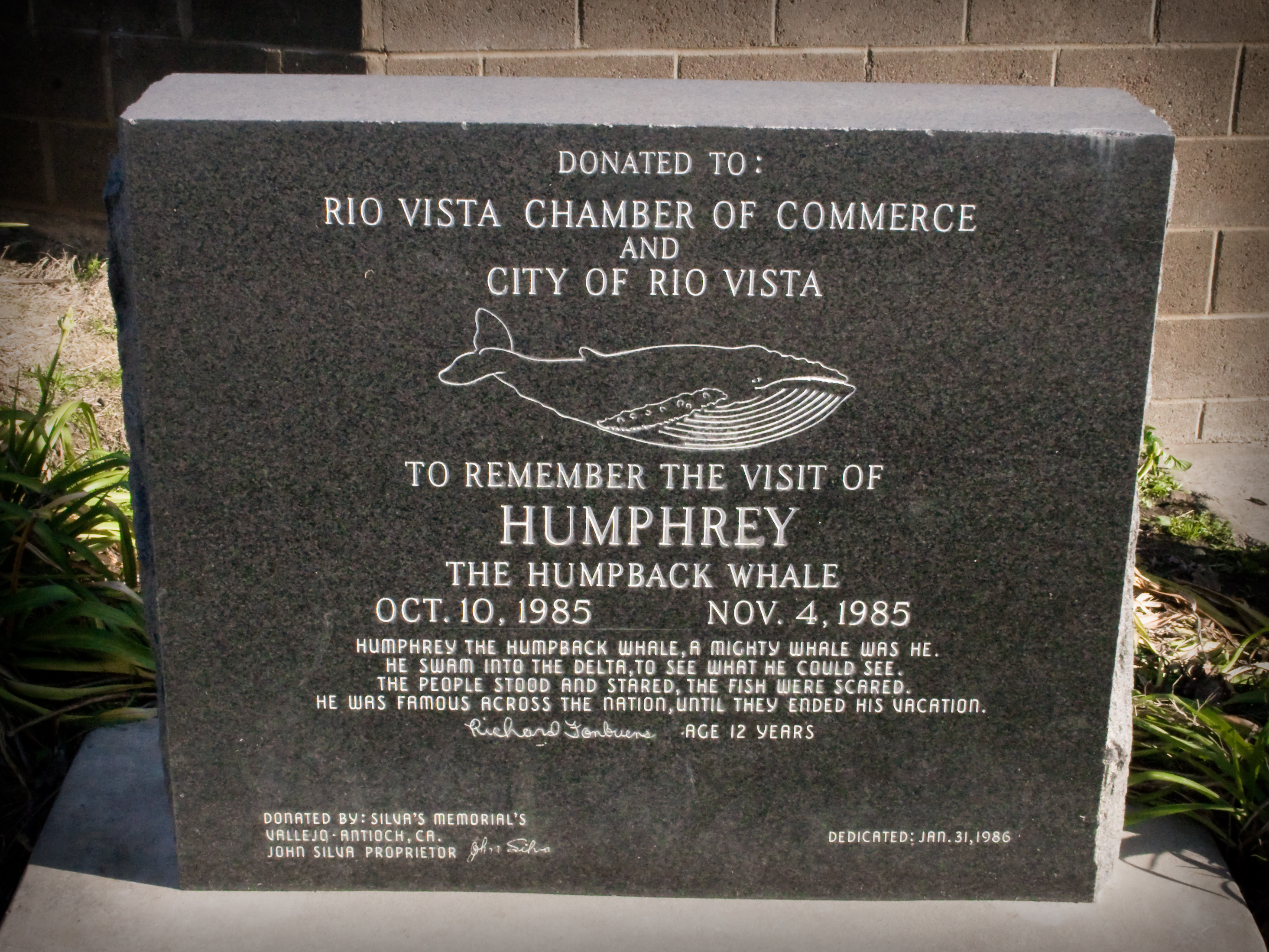 Humphrey the Humpback Whale, a mighty whale was he. He swam into the delta, to see what he could see. The people stood and stared, the fish were scared. He was famous across the nation, until they ended his vacation. dedication in January 1986. whale in the Bay area 1985